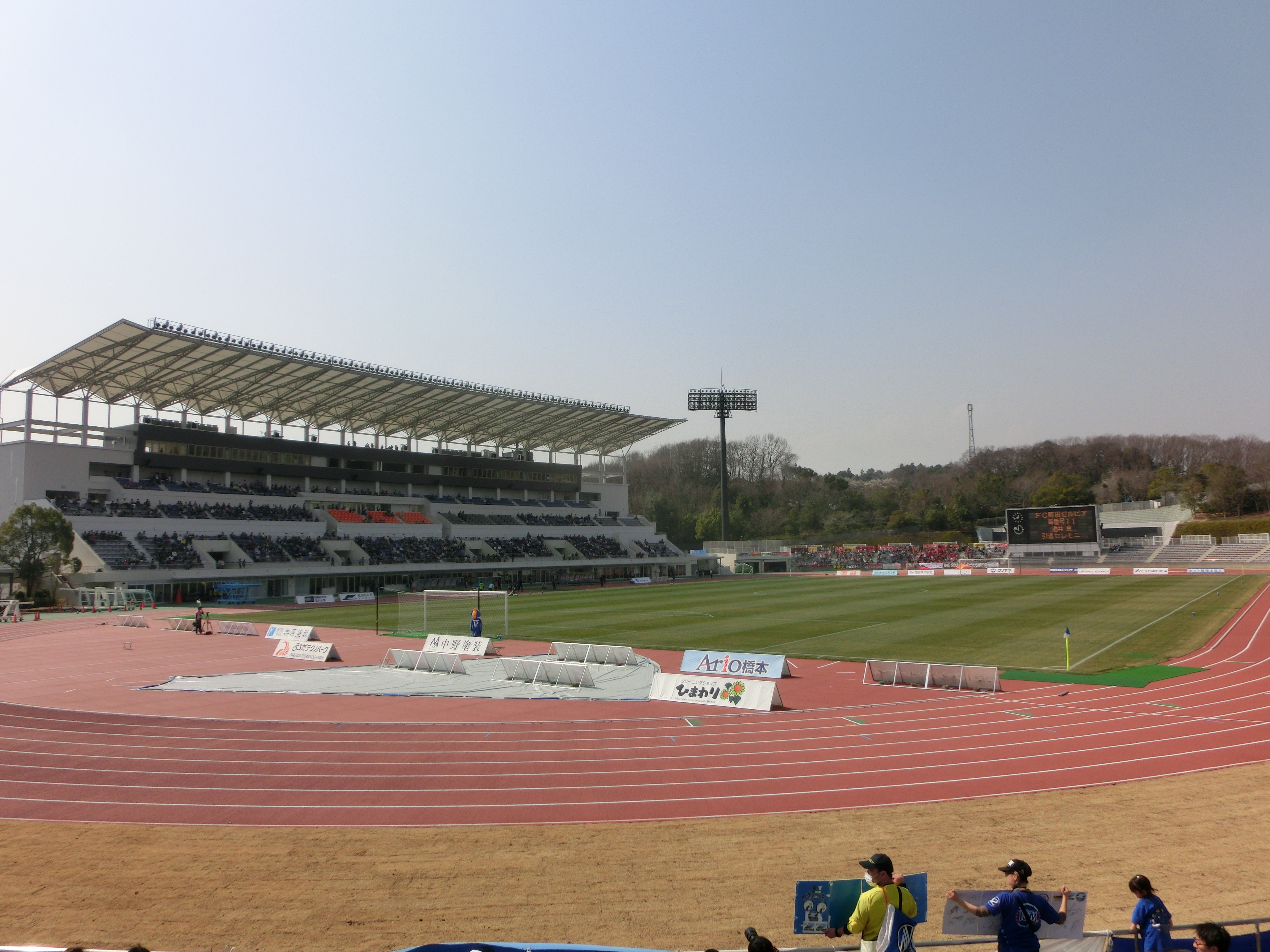 Machida municipal Stadium